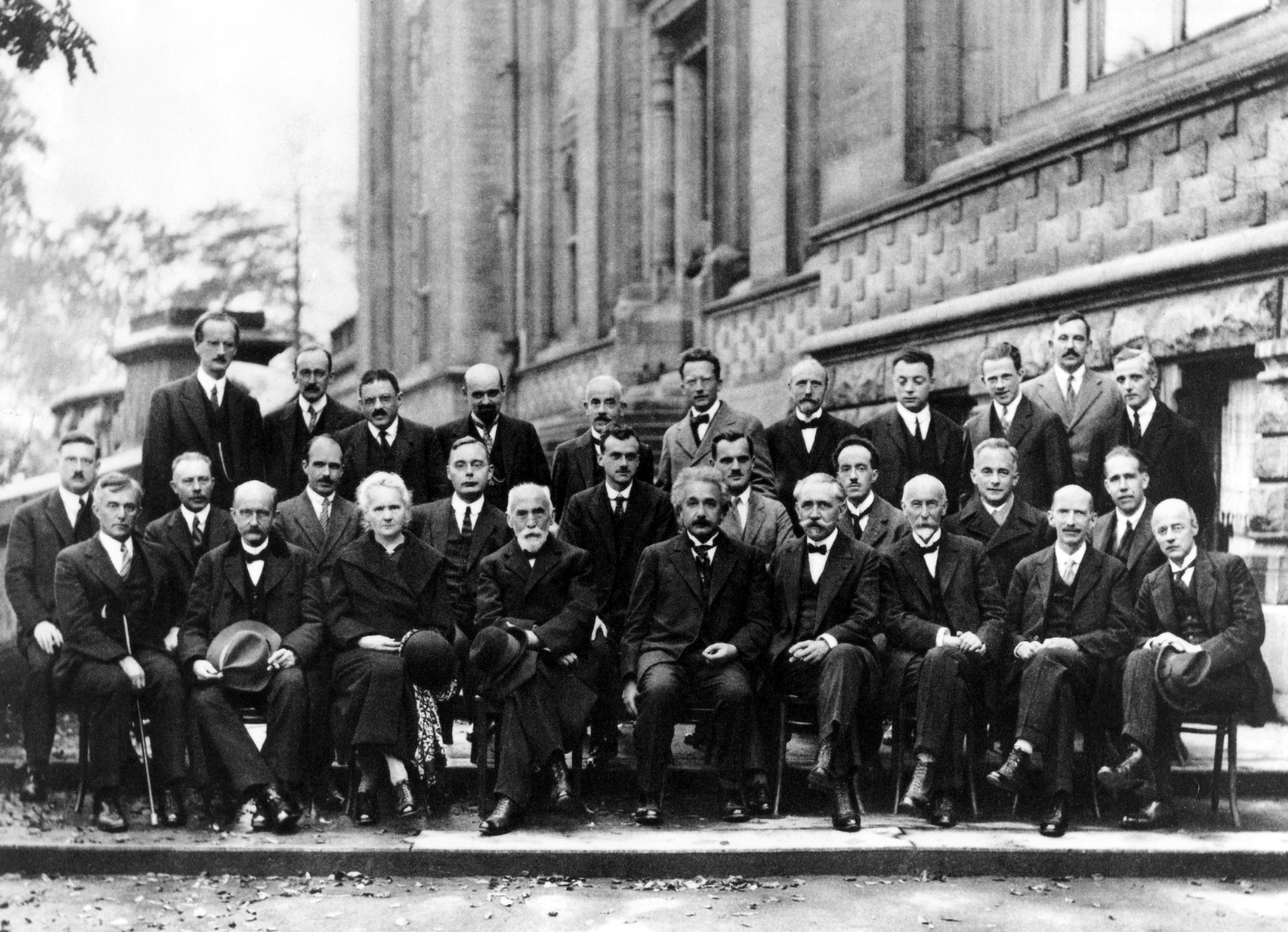 1927 Solvay Conference on Quantum Mechanics. Photograph by Benjamin Couprie, Institut International de Physique Solvay, Brussels, Belgium. From back to front and from left to right : Auguste Piccard, Émile Henriot, Paul Ehrenfest, Édouard Herzen, Théophile de Donder, Erwin Schrödinger, Jules-Émile Verschaffelt, Wolfgang Pauli, Werner Heisenberg, Ralph Howard Fowler, Léon Brillouin, Peter Debye, Martin Knudsen, William Lawrence Bragg, Hendrik Anthony Kramers, Paul Dirac, Arthur Compton, Louis de Broglie, Max Born, Niels Bohr, Irving Langmuir, Max Planck, Marie Skłodowska Curie, Hendrik Lorentz, Albert Einstein, Paul Langevin, Charles-Eugène Guye, Charles Thomson Rees Wilson, Owen Willans Richardson This picture is also available with names at the bottom.